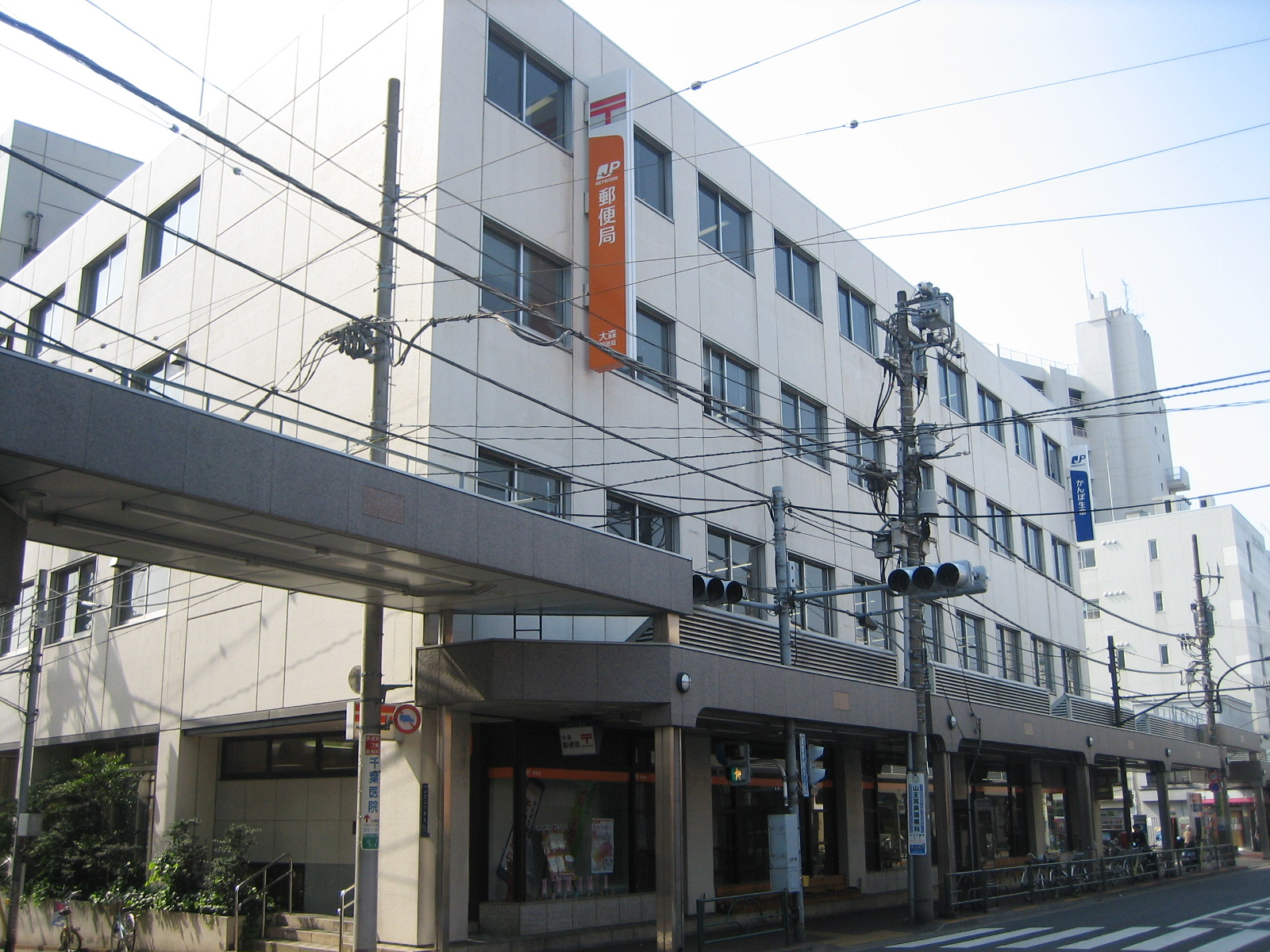 Omori post office in Tokyo, Japan